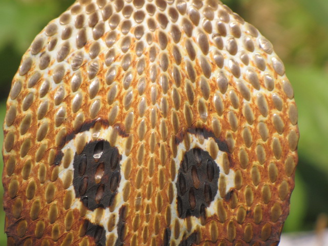 False Eyes of the Binocellate Cobra